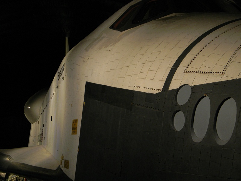 Space Shuttle Enterprise at the Intrepid Sea-Air-Space Museum, New York